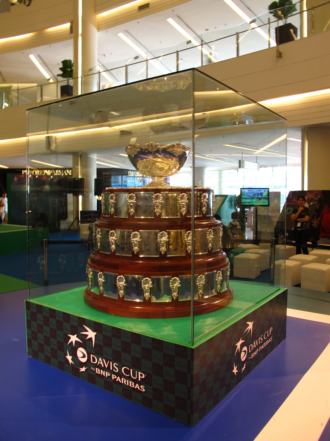 Davis Cup in Bangkok 2